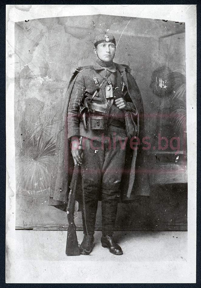 Kostadin Grigorov Kozudzhiiski